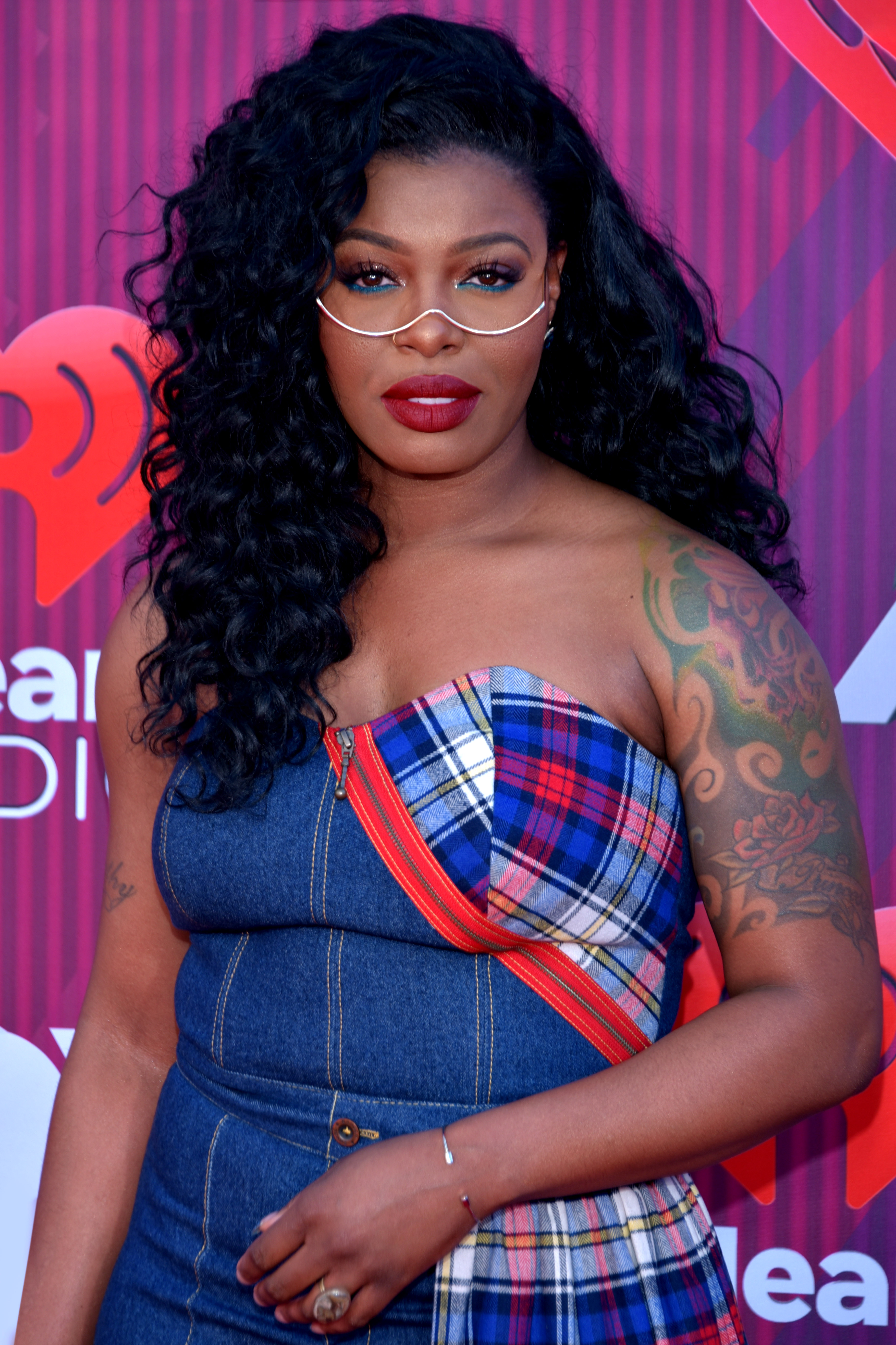 Ta'Rhonda Jones at the 2019 iHeartRadio Music Awards in Los Angeles California on March 14, 2019 - Photo by Glenn Francis of